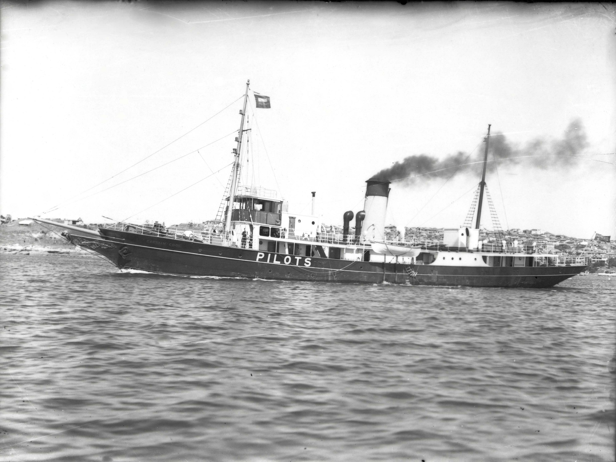 Title: The vessel CAPTAIN COOK on Sydney Harbour Dated: No date Digital ID: 9856_a017_A017000048 Rights: We'd love to hear from you if you use our photos/documents. Many other photos in our collection are available to view and browse on our website using Photo Investigator.